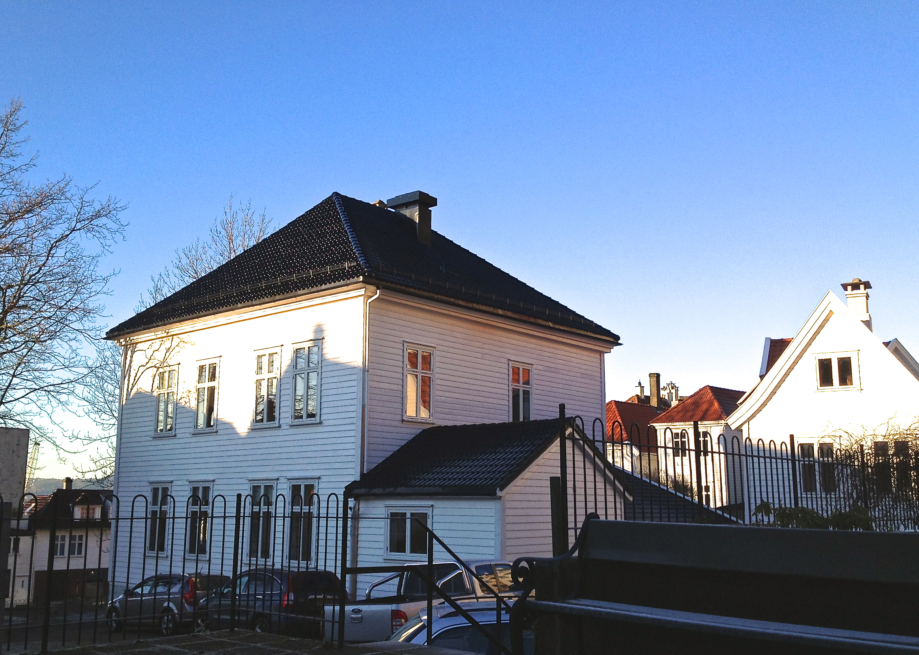 Barnehjemmets "Hus nummer 1", Sandviksveien 41, ble bygget i 1888. Sett fra baksiden, med et senere tilbygg.